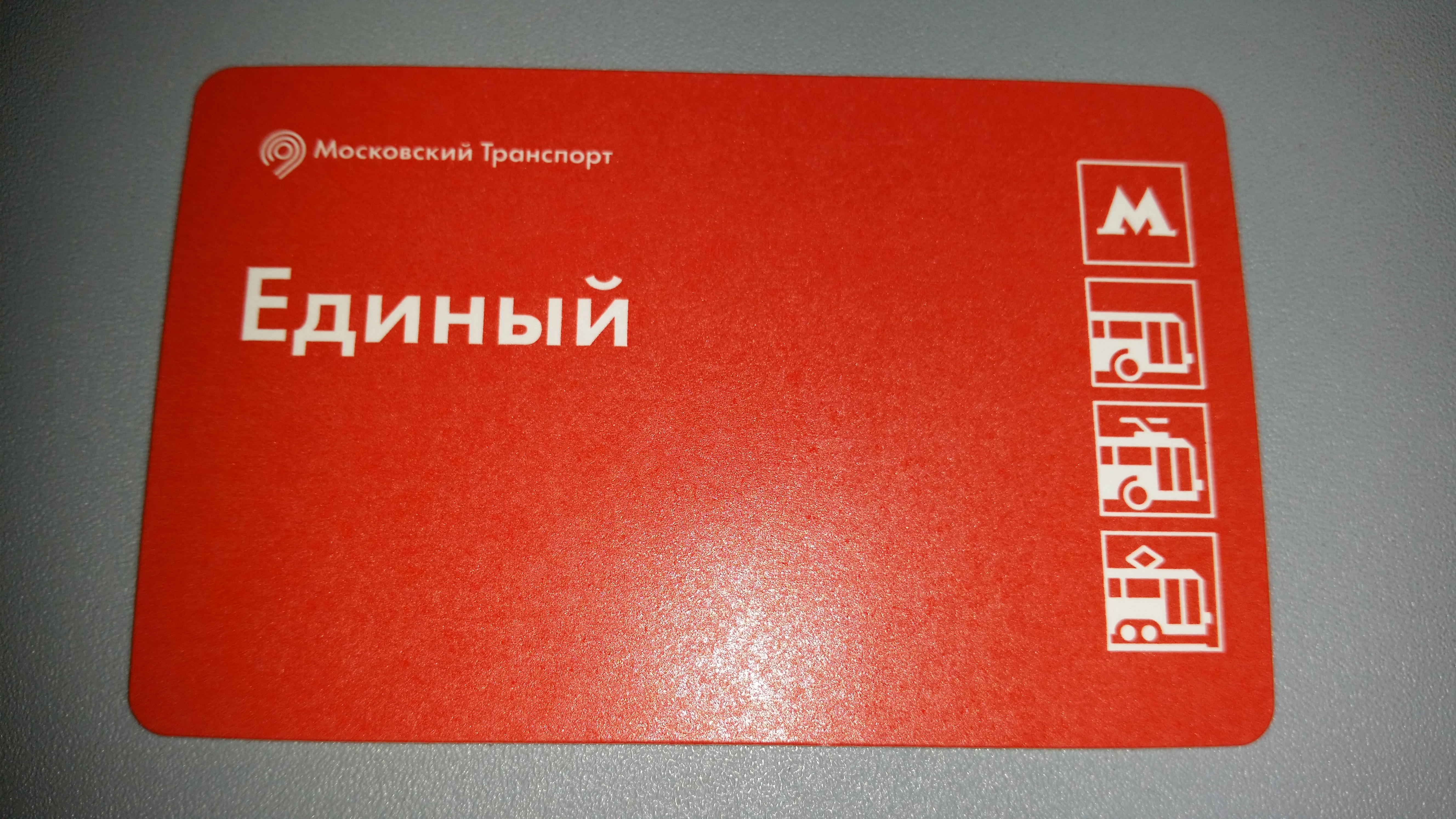 The Card Of Moscow Metro